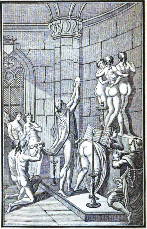 The novel Justine, or The Misfortunes of Virtue: Book adorned with a frontispiece and 40 carefully-engraved subjects. Volume 2.